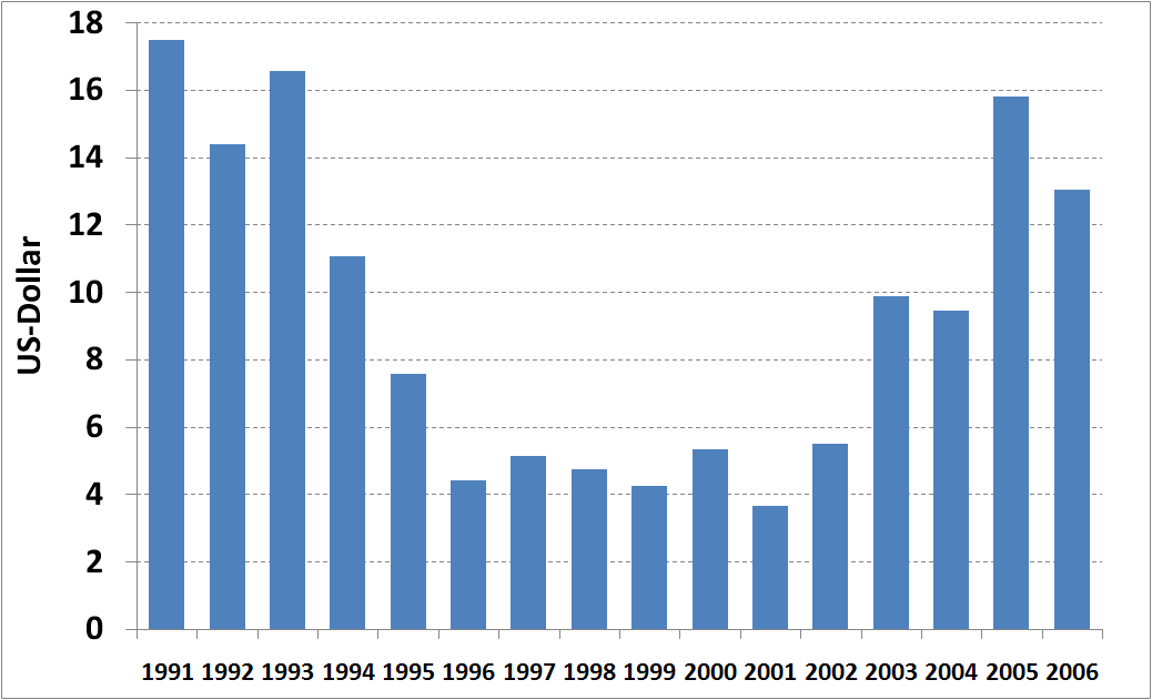 Annual Investment per capita in Mexico in water supply and sanitation (1991-2006)